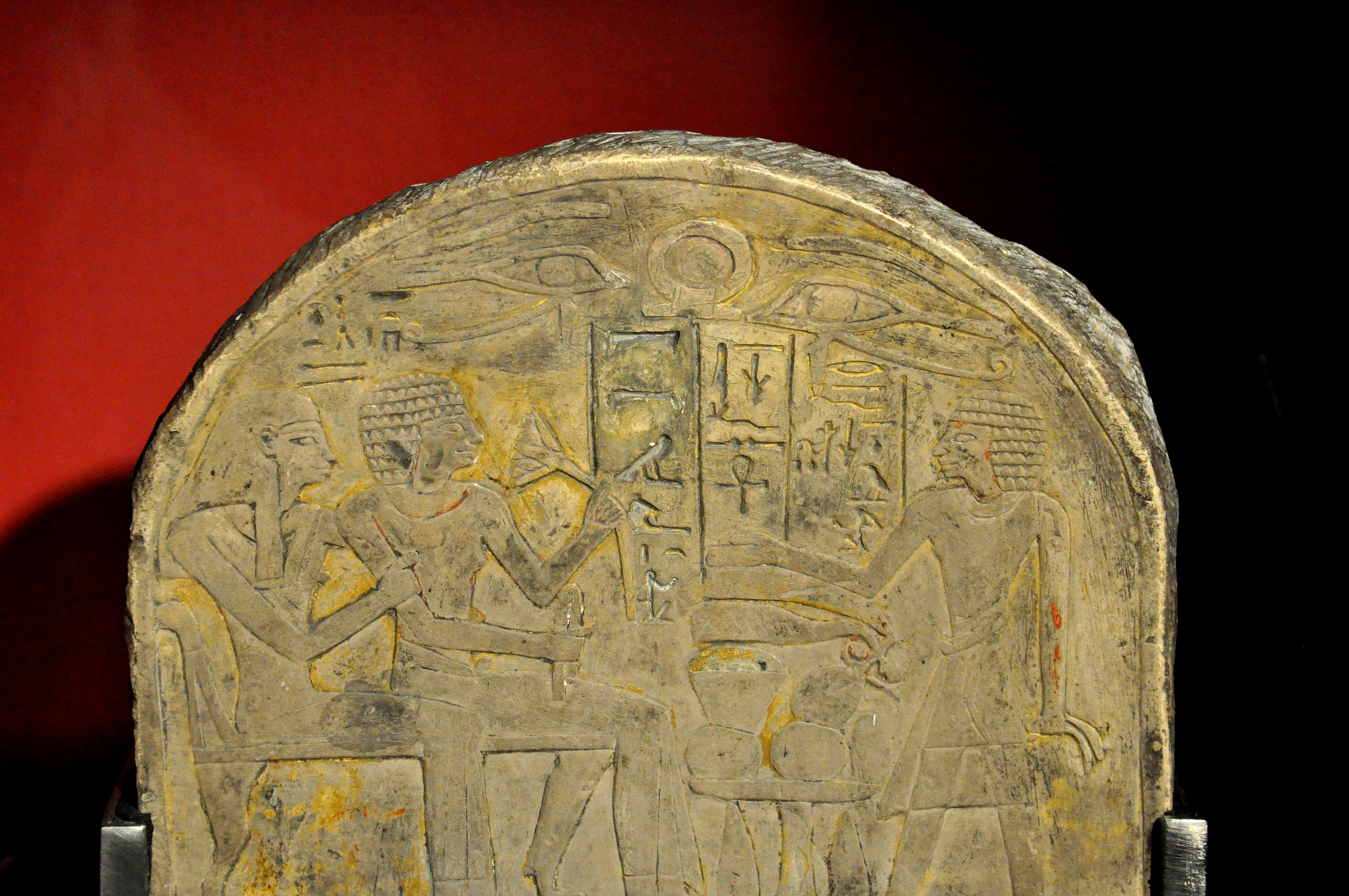 Detail of funerary stela of Amenemhat. The name of God Amun was erased by Akhenaten's agents. Limestone, painted. From Egypt, early 18th Dynasty. The Burrell Collection, Glasgow.